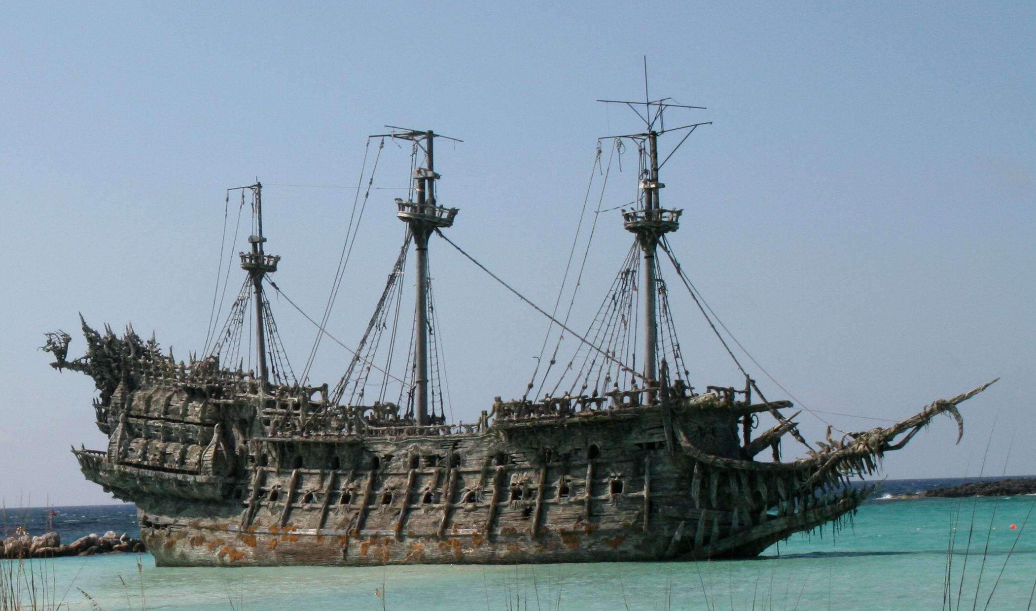 The Flying Dutchman prop from the Disney movies Pirates of the Caribbean Dead Man's Chest and At World's End.